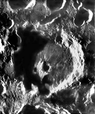 Crater Berkner LRO image